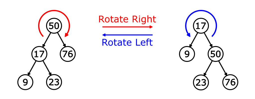 Tree rotations